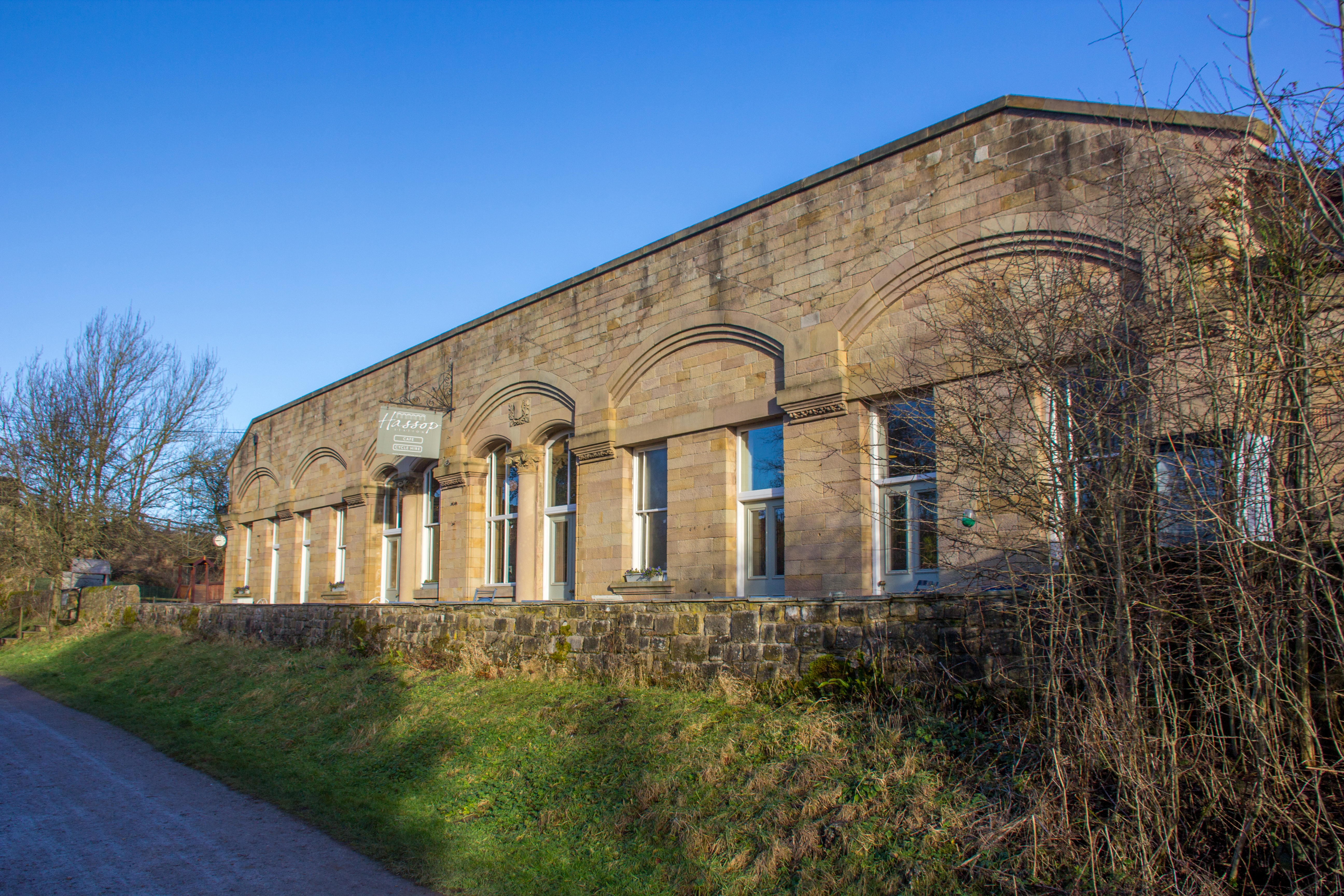 Hassop station and nearby, UK